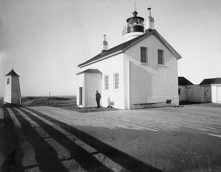 undated United States Coast Guard photograph of Willapa Bay Light